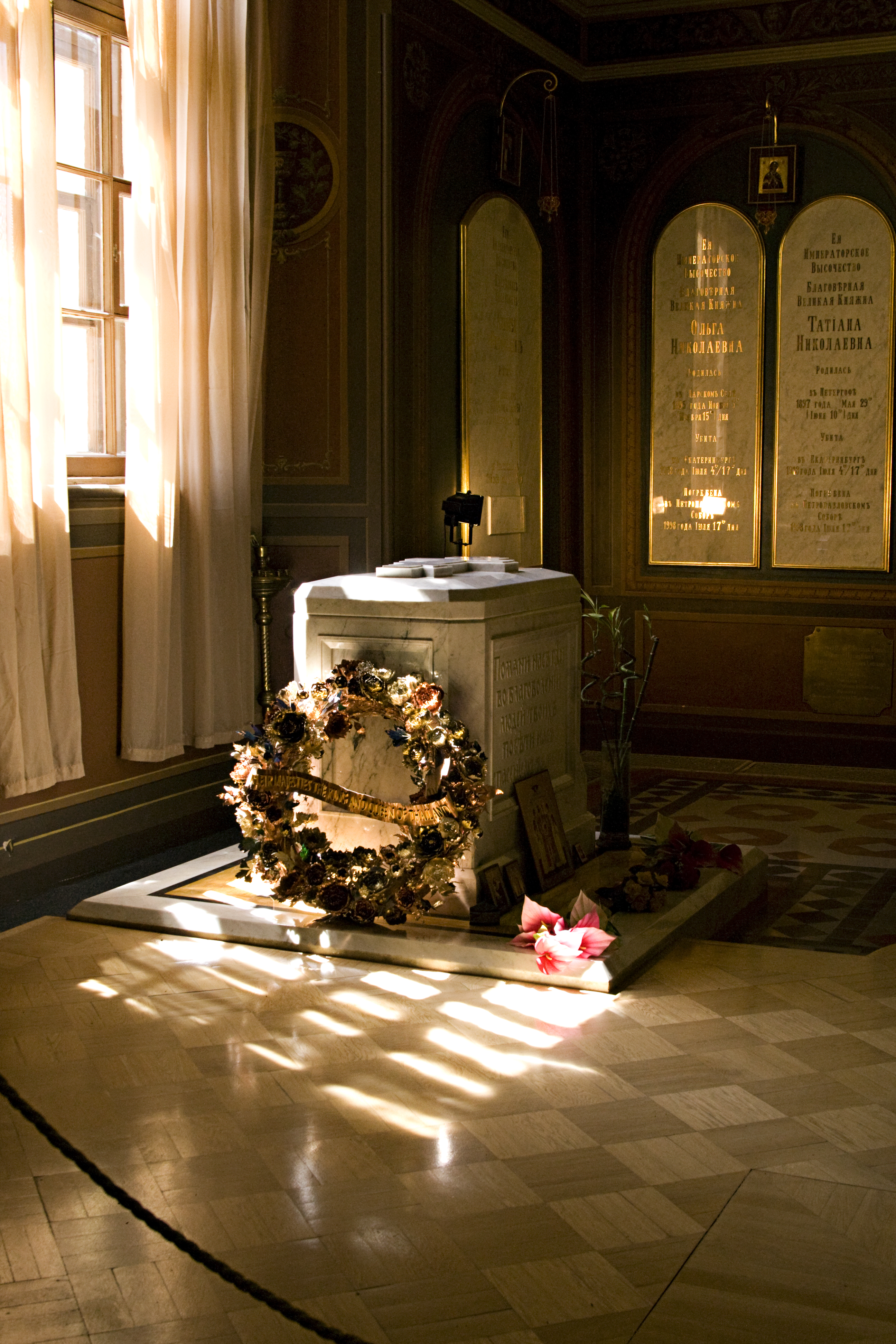 View of the tomb of the last Russian tsar and his family in the interior of Saint Peter and Paul Cathedral, St. Petersburg, Russia.